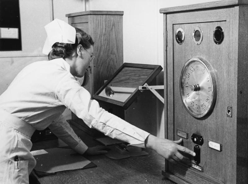 Radium Treatment in a London Hospital, England, 1940 A nurse switches on the radium treatment apparatus at a London hospital in 1940. When the patient is ready and everyone else has left the treatment room, the nurse presses a button and air pressure once more transfers the radium from the lead safe to the treatment apparatus.